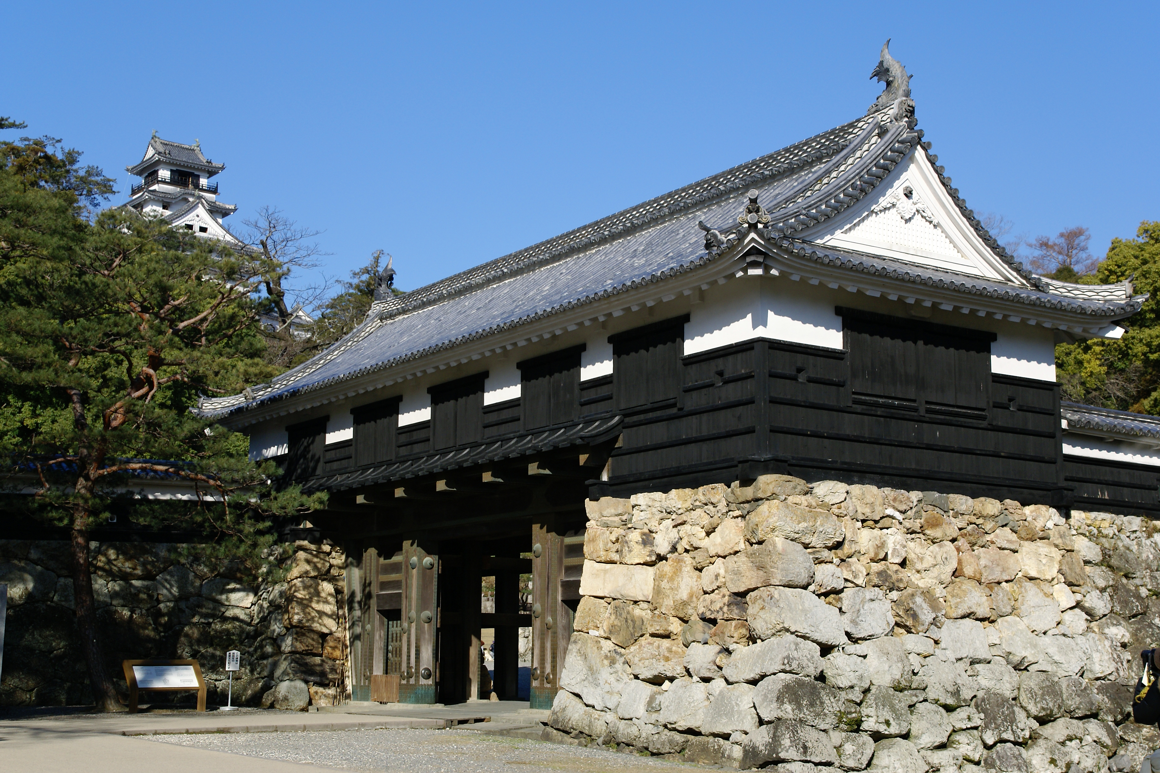 Kochi Castle in Kochi, Kochi prefecture, Japan